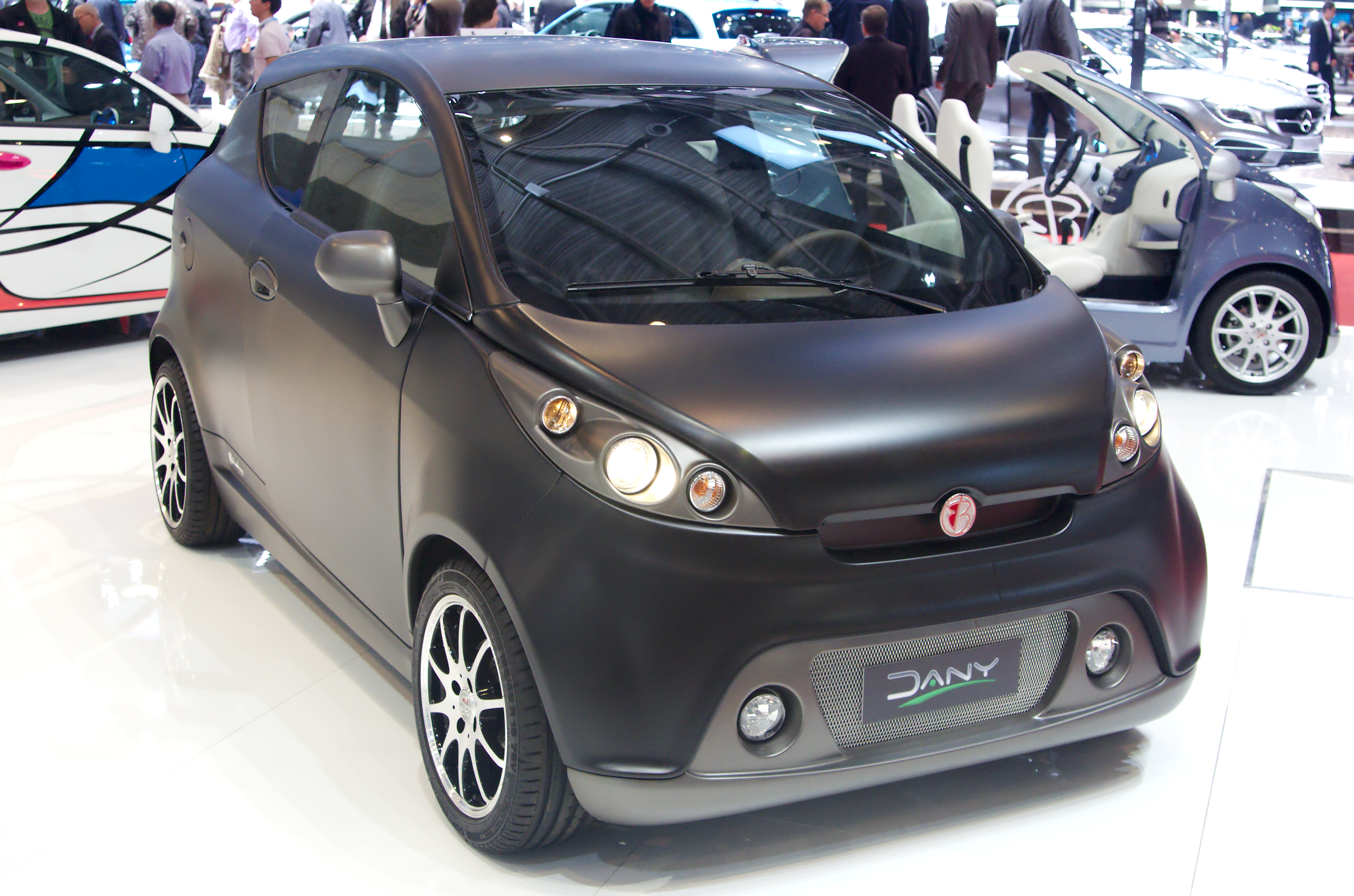 Geneva MotorShow 2013 - Belumbury Dany front